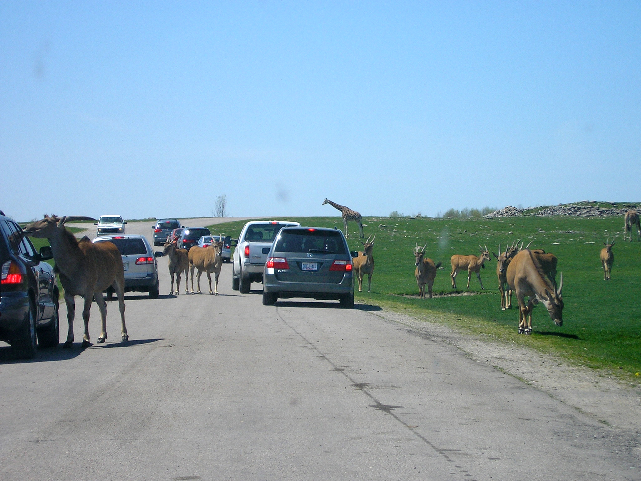 Vehicles surrounded by animals of African lion safari